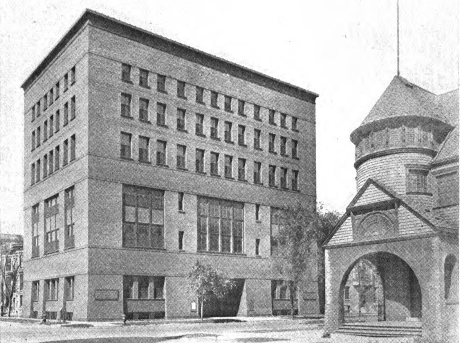 Black and white photograph of the Abraham Lincoln Centre, a settlement house on Chicago's South Side at the southwest corner of Oakwood and Langley. From the Centre's 1913 annual report .